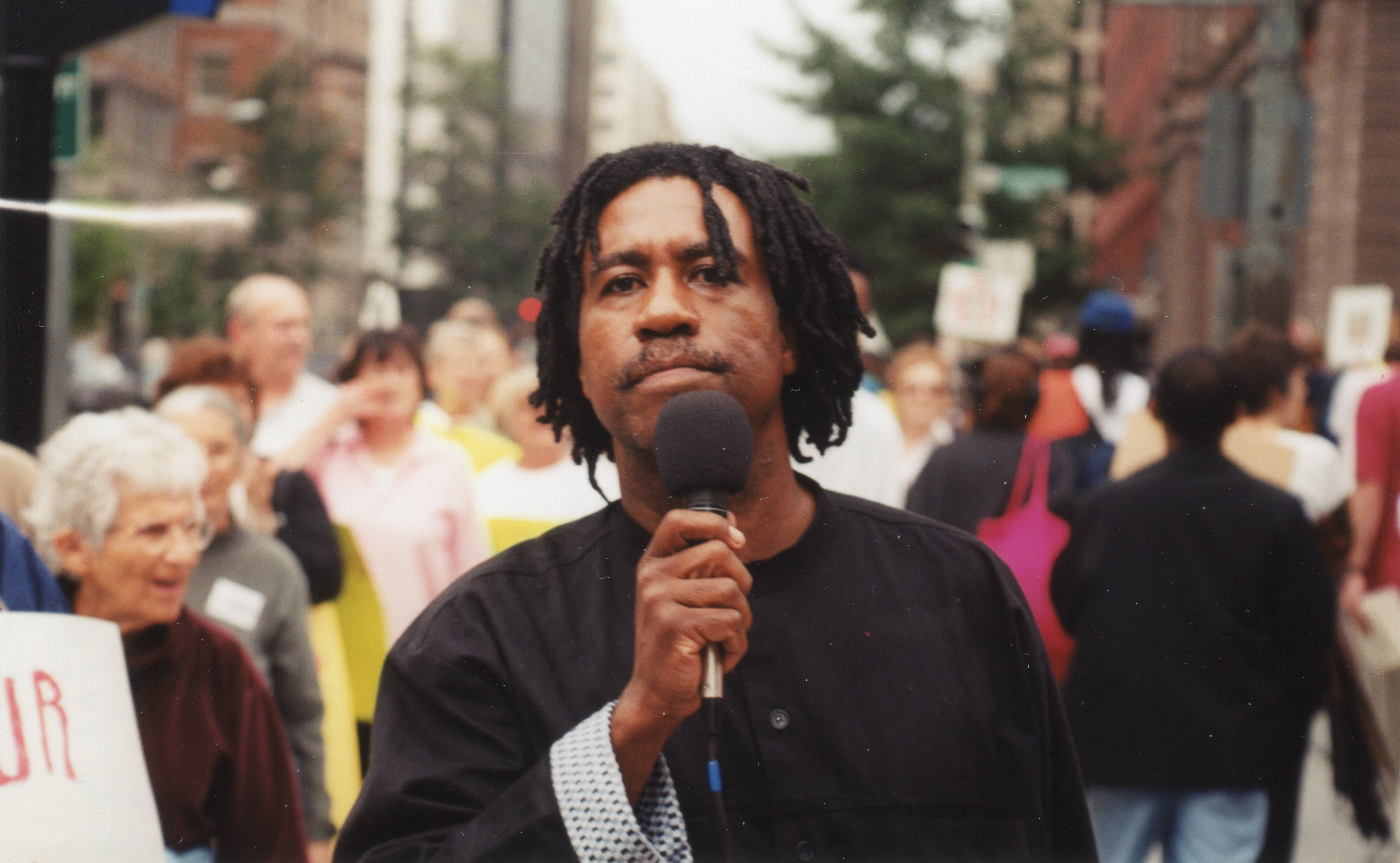 BLACK VOICES FOR PEACE Columbus Day NATIONAL WITNESS FOR PEACE WITH JUSTICE PROTEST/ PICKET LINE near the WHITE HOUSE on Pennsylvania Avenue at 17th Street, NW, Washington DC on Saturday afternoon, 12 October 2002 by Elvert Barnes Photography